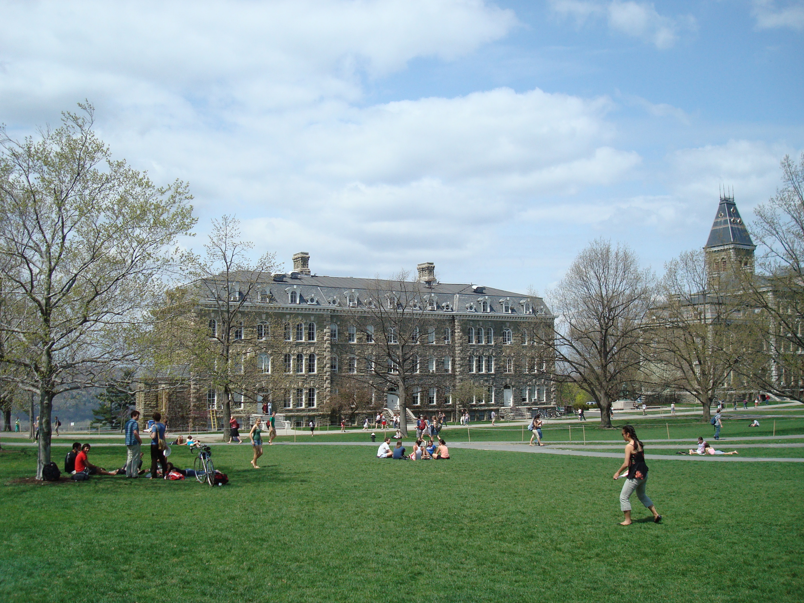 The eastern face of Morrill Hall at Cornell University as viewed from across the Arts Quad.